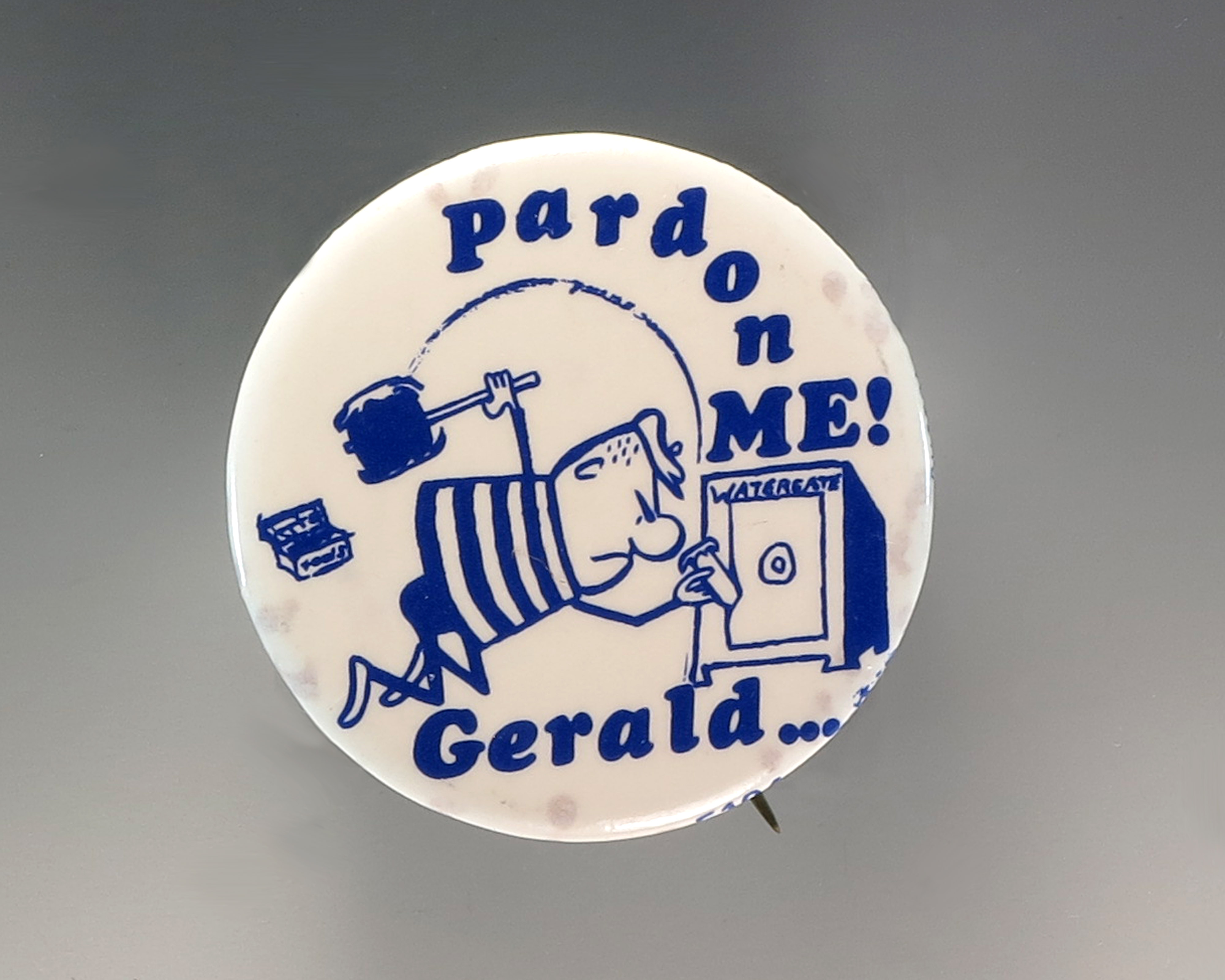 White button with blue lettering, depicting a man in a burglar outfit trying to hack into a safe with a hammer and chisel. The safe is labeled "Watergate" and further text on the button reads, “Pardon me! Gerald…” One of a variety of anti-Ford buttons generated during the 1976 presidential election.